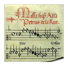 Pierre de La Rue's score.